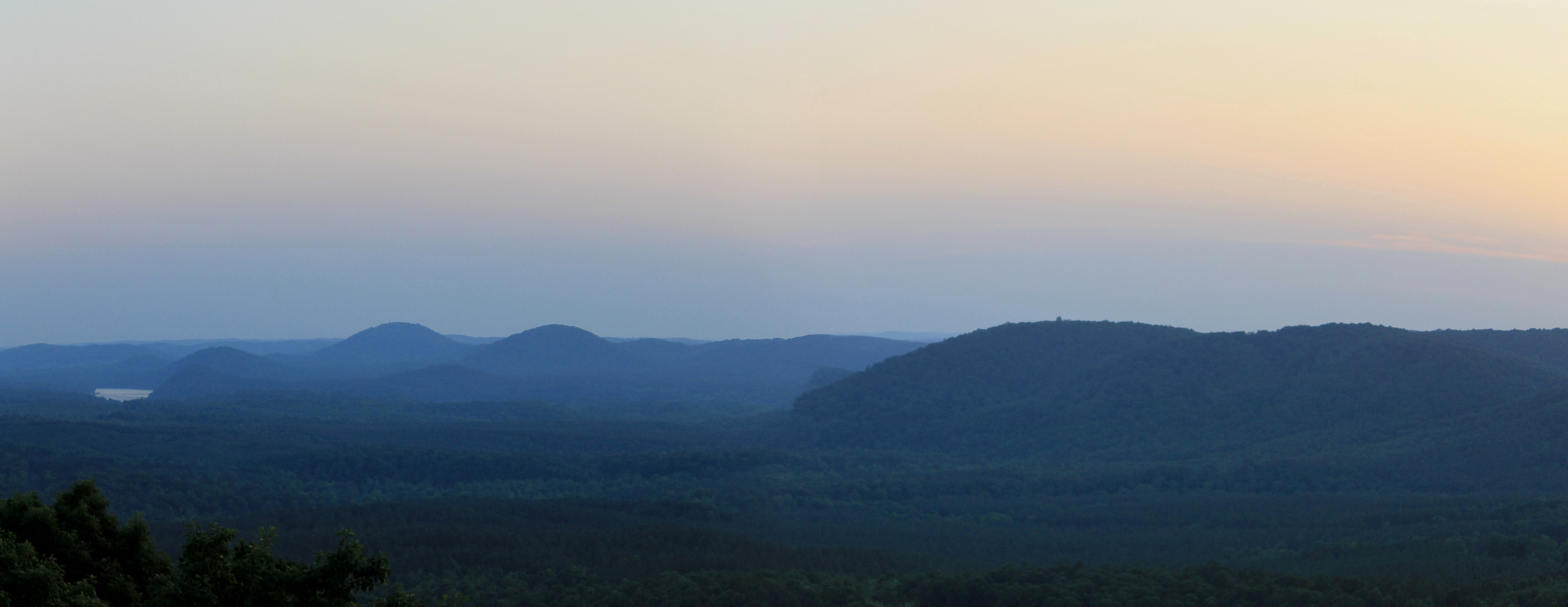 Panorama of Morrow Mountain State Park and Uwharrie Mountains viewed from the northeast atop Buck Mountain in Montgomery County NC